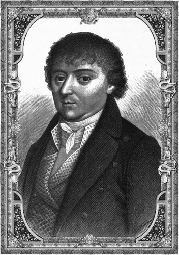 Self-portrait of Manuel de Heras Soto, Lithograph (1870-1907).